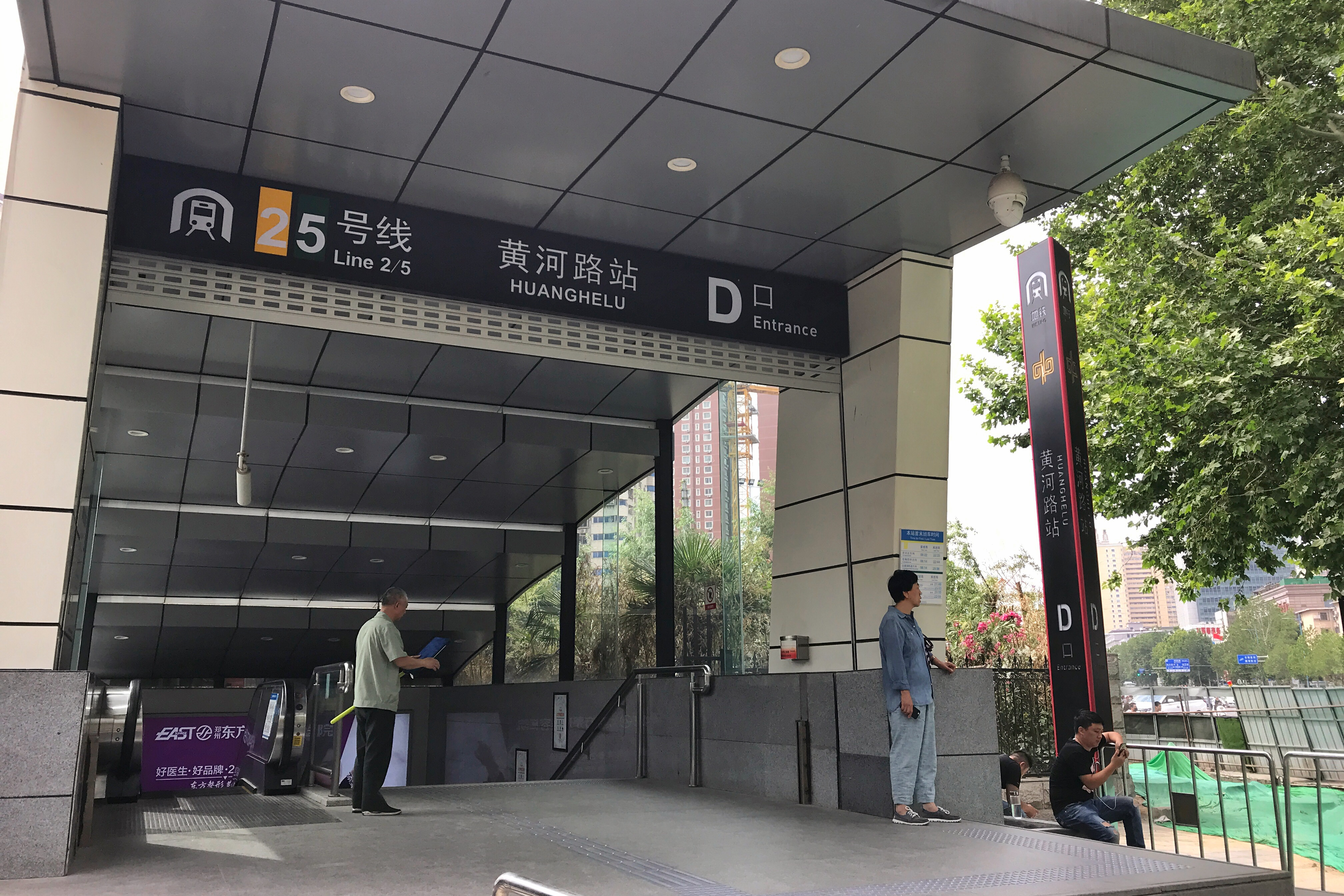 Exit D of Huanghelu Station